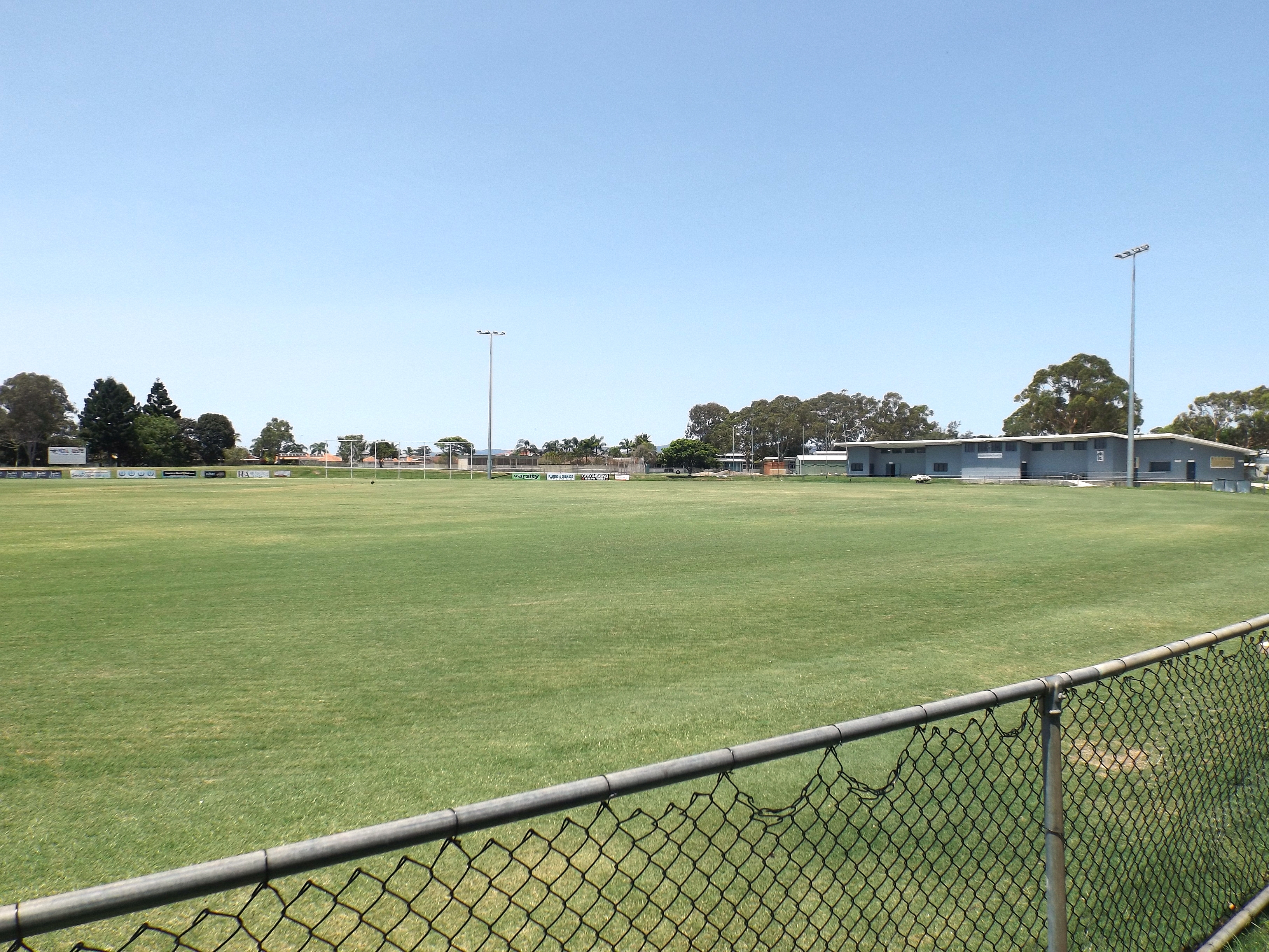 Photo of H & A Oval at Mermaid Waters, Gold Coast City, Queensland, Australia.